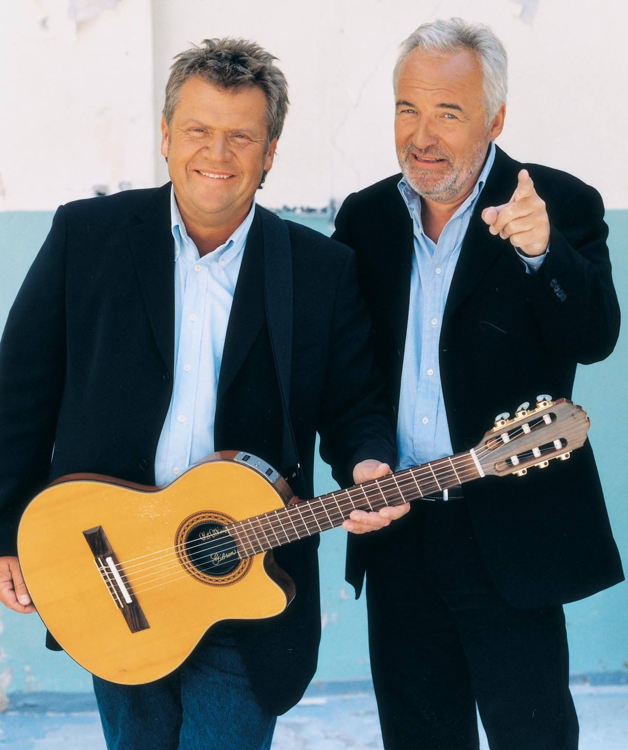 Danish recording artists Niels and Jørgen Olsen.